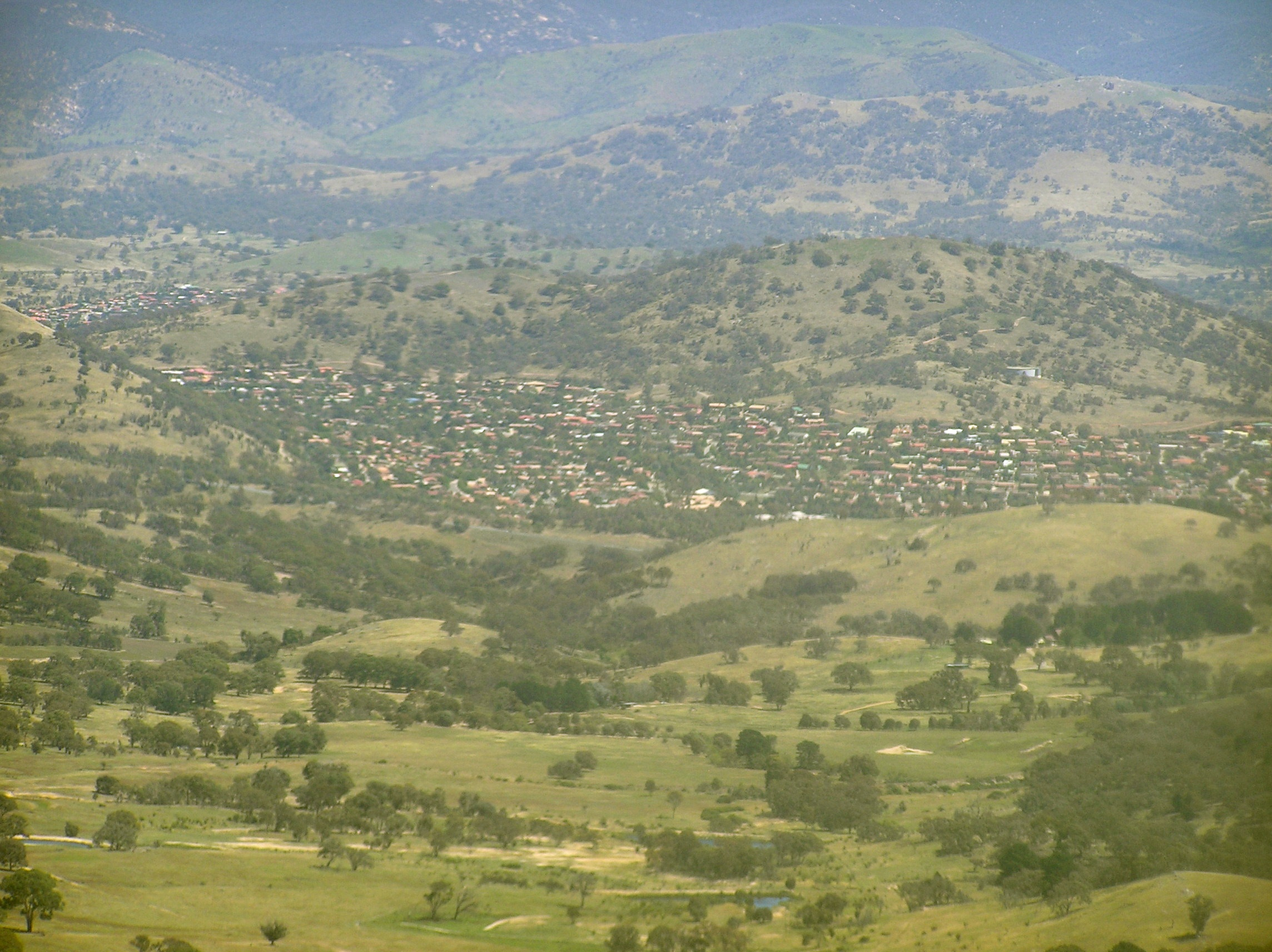 Aerial photo from north east